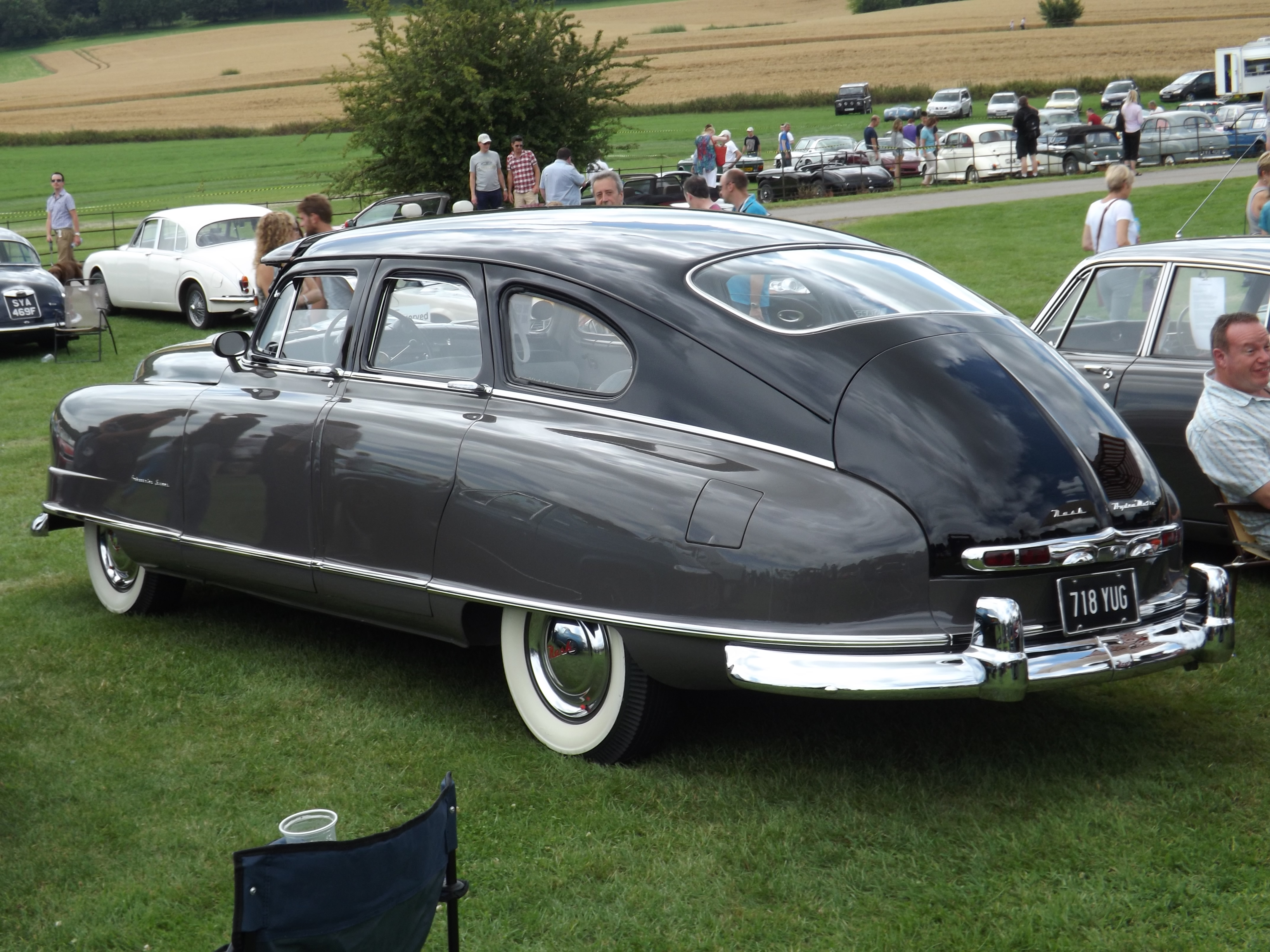 Spotted at "Classics at the Castle", Sherborne, Dorset on 20th July 2014. Saw this car last year and loved it, so couldn't resist another photo.